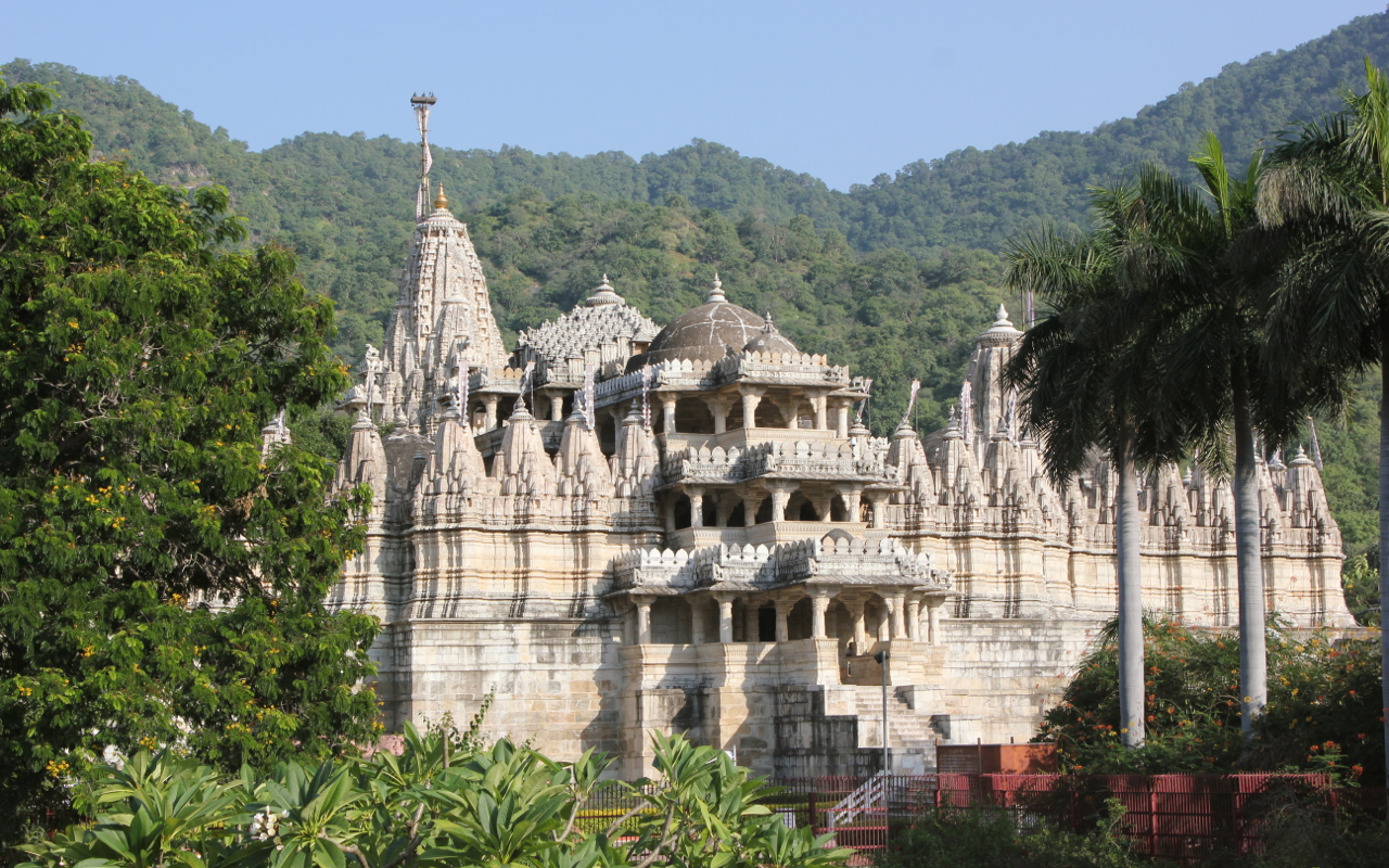 Gorgeous 15th century Jain temples at Ranakpur, Rajasthan, India. Oct '12.